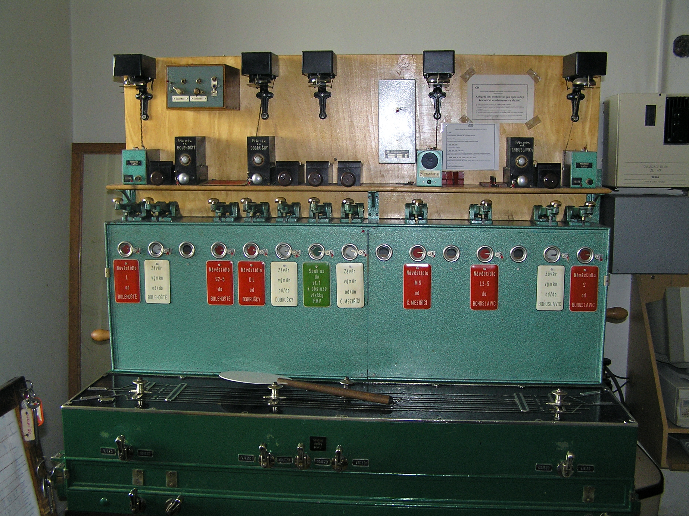 Mechanic interlocking machine (like lever frame) in the station Opočno pod Orlickými horami (East Bohemia)